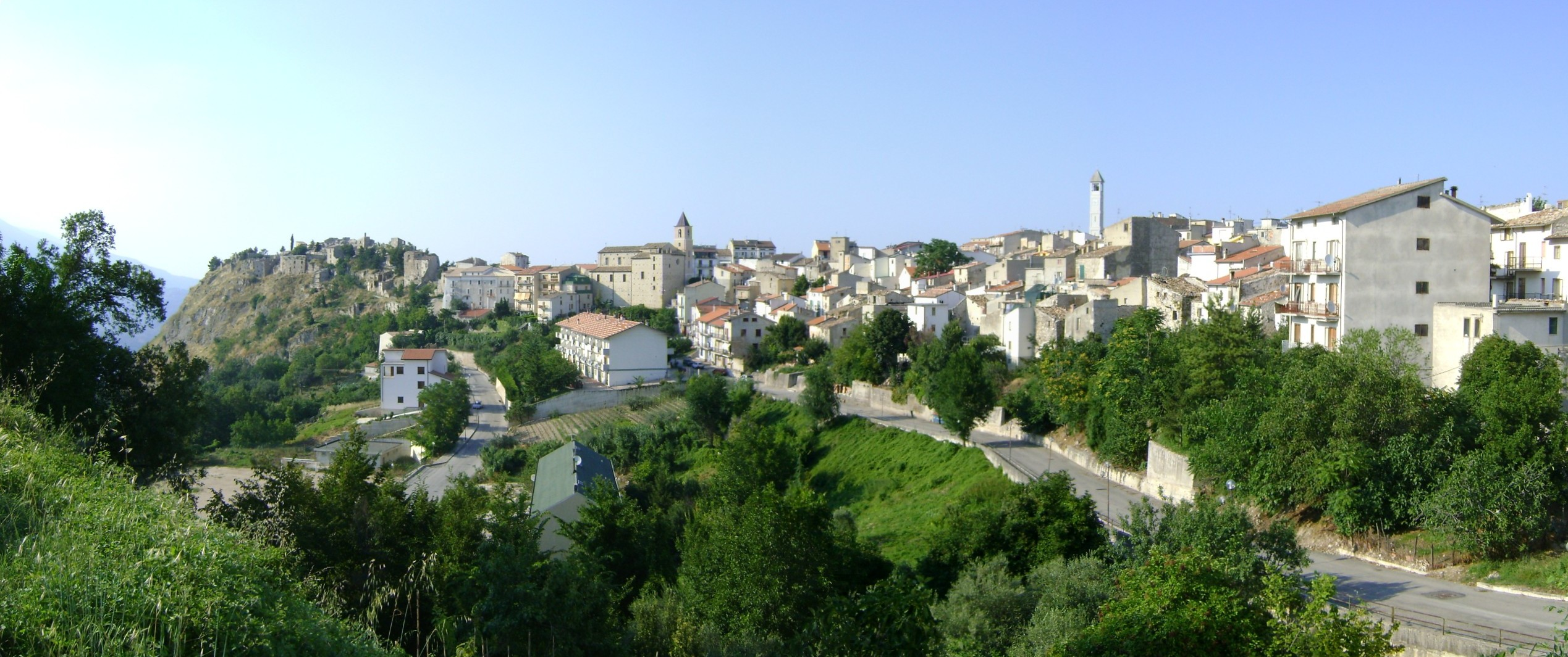 View of Gessopalena, province of Chieti, Abruzzo